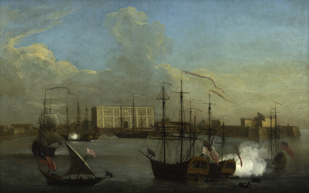 Painting of the East India Company's settlement in Bombay